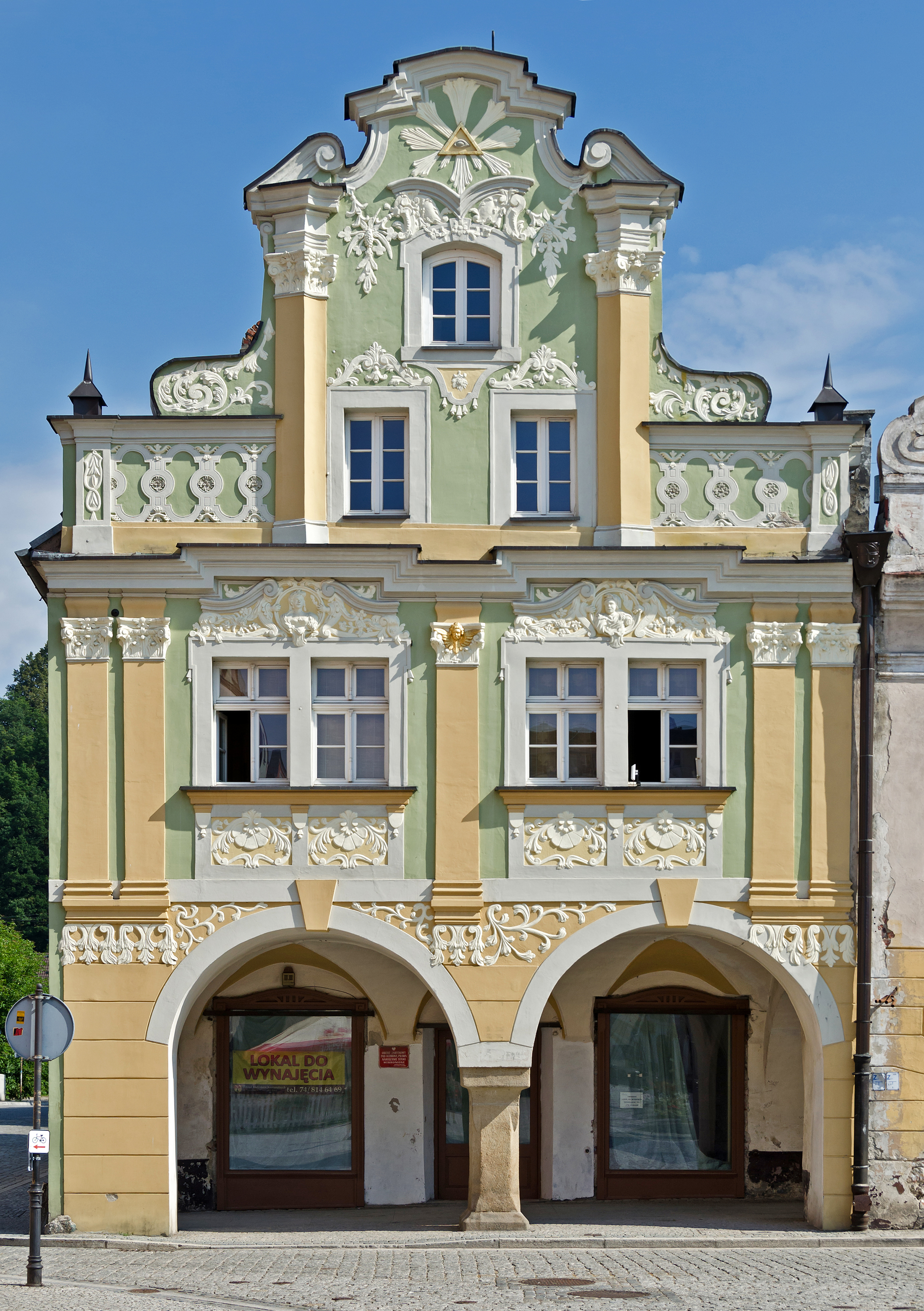 7 Market Square in Lądek-Zdrój Ta fotografia przedstawia zabytek wpisany do rejestru zabytków pod numerem ID 592833